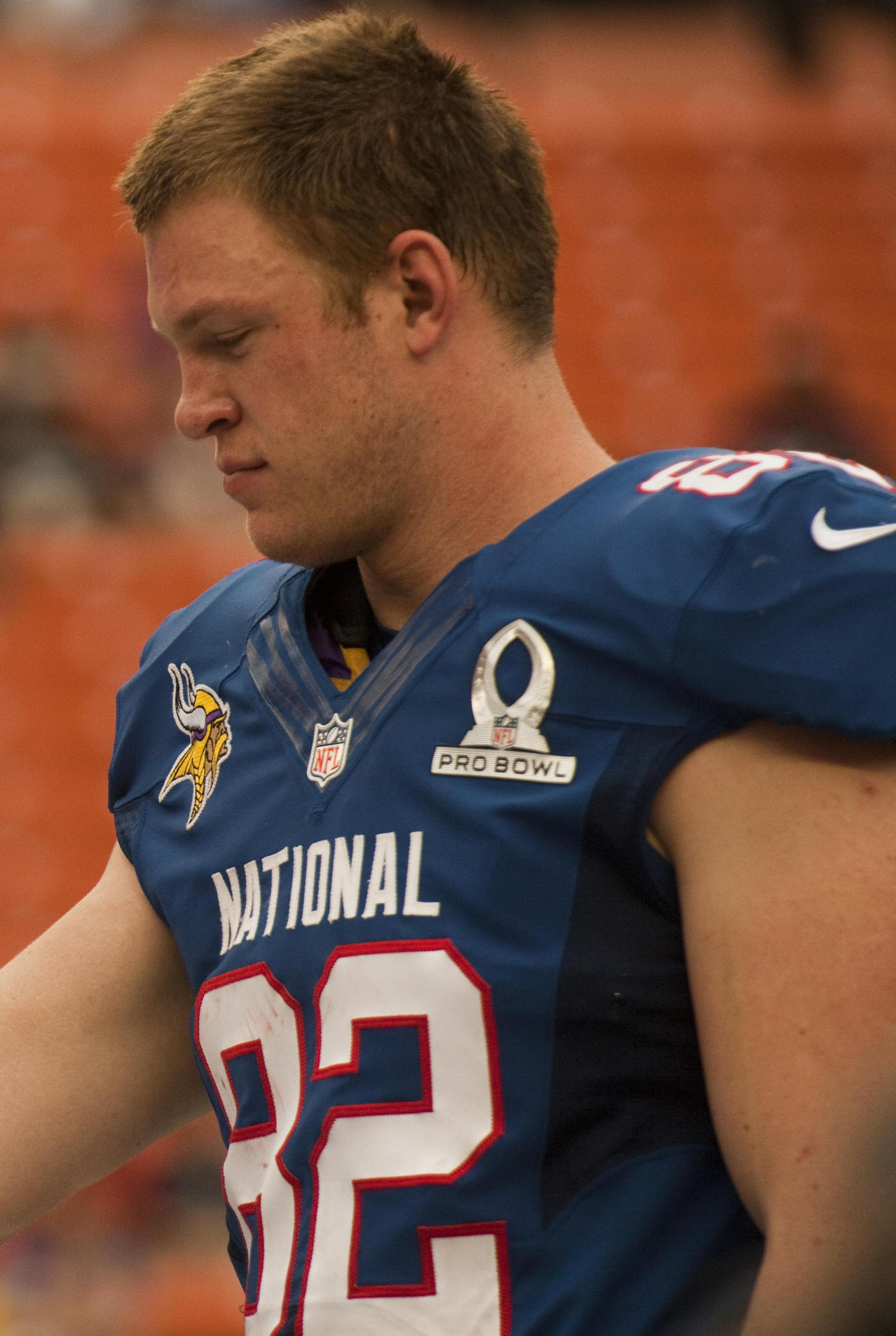 Minnesota Vikings tight end Kyle Rudolph eyes his 2013 Pro Bowl Most Valuable Player award that he received for his performance at Aloha Stadium, Jan. 27.